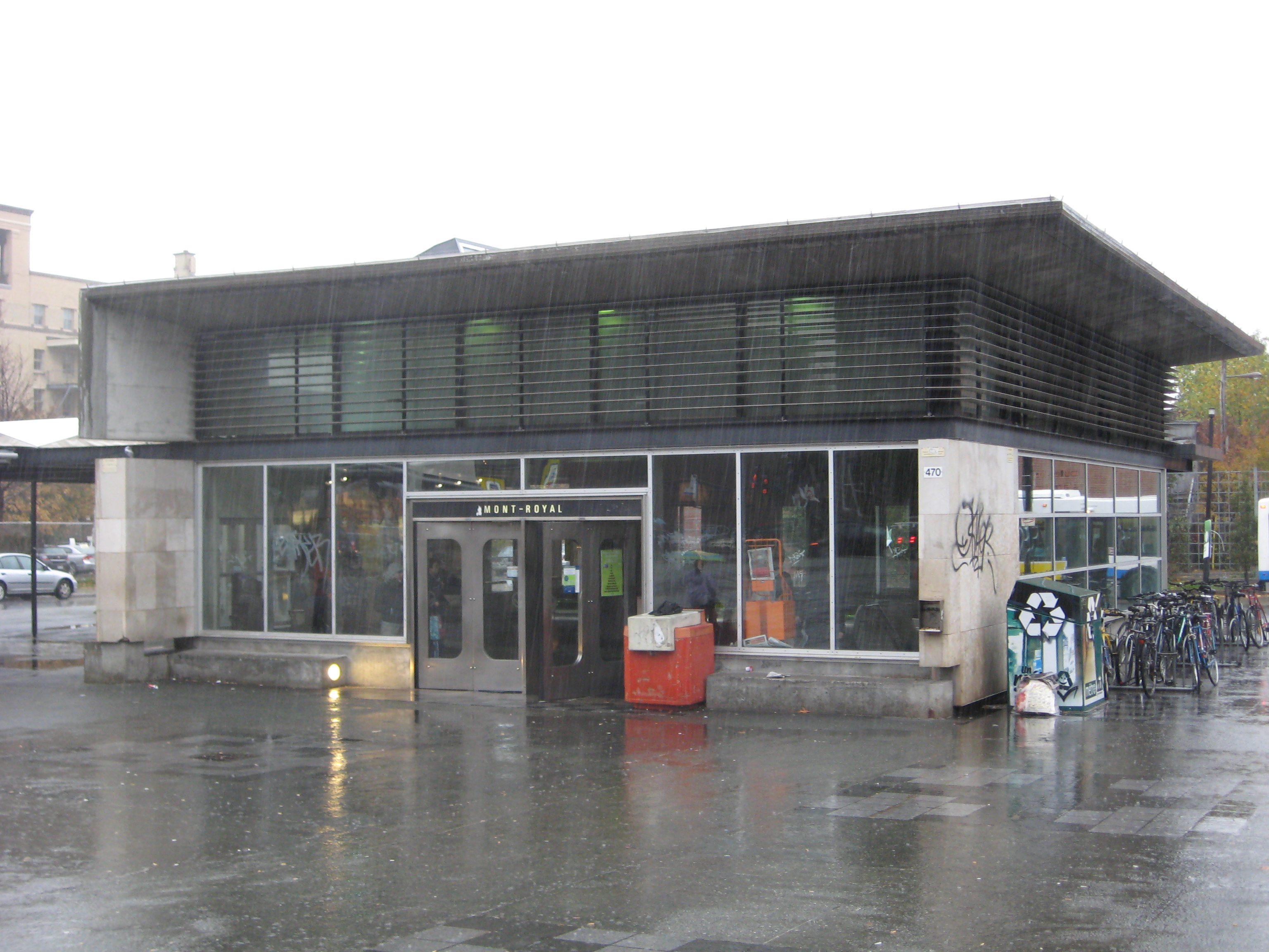 Mont-Royal subway station, Montréal, Québec